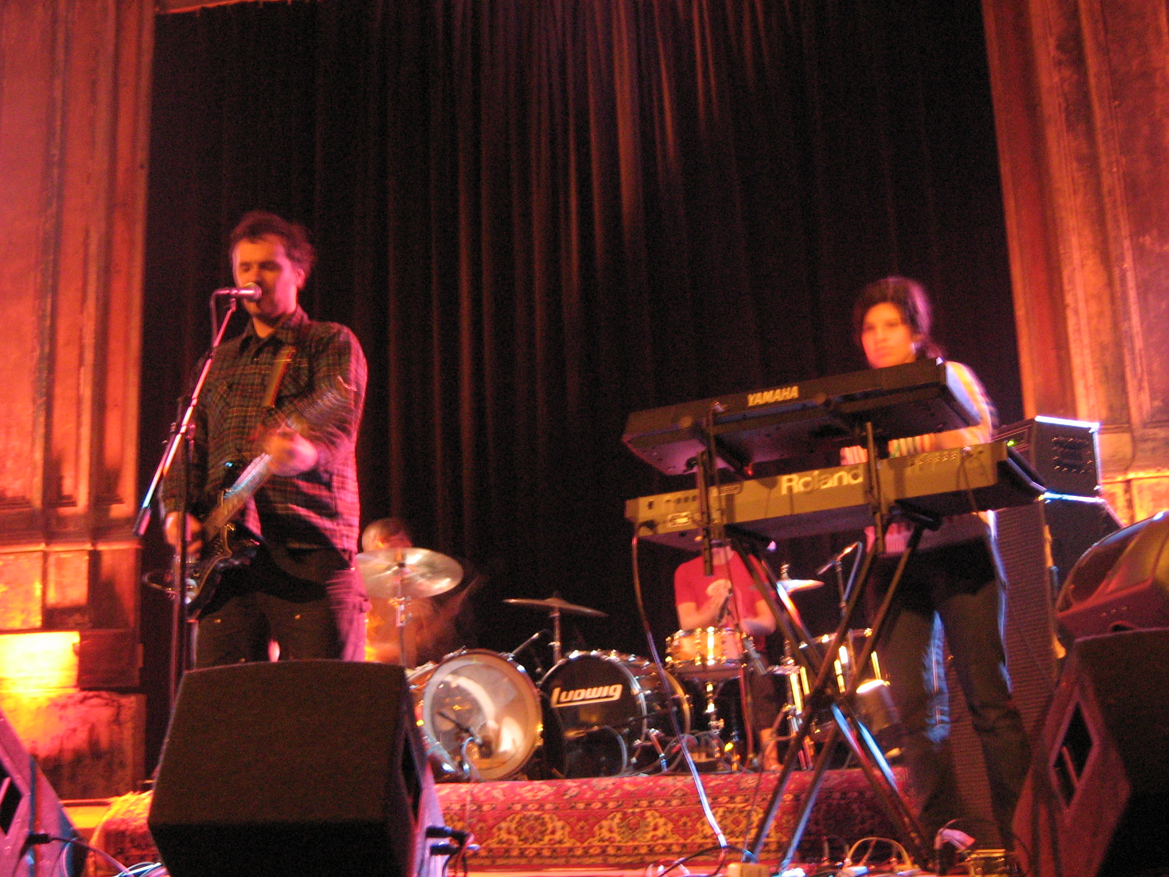 Musician Phil Elverum playing a show in 2010